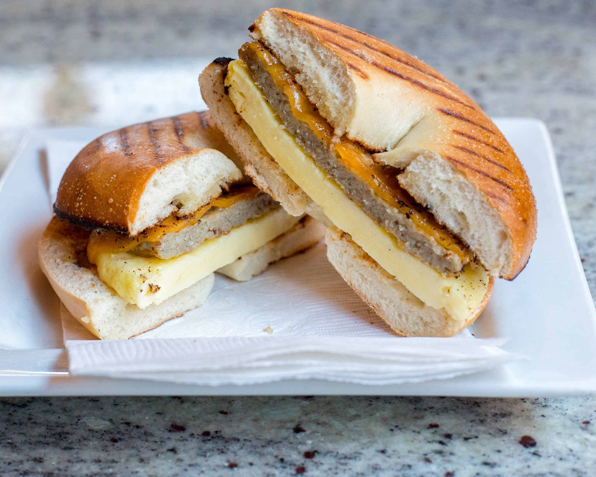 500px provided description: Day 036 - #Photo365 - Breakfast [#food ,#breakfast ,#bagel ,#Photo365]